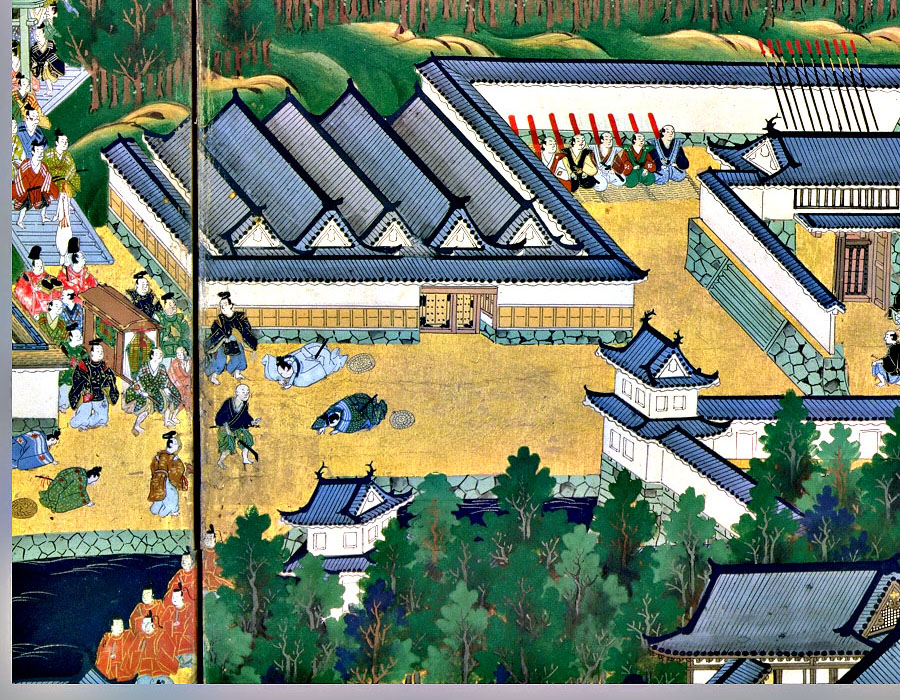 TOP OF FIRST PANEL, Left Screen (Northern enciente of Edo Castle, Suruga Dainagon residence, Ohanabatake (the shogun's botanical garden for medicine), Momijiyama, Tosho Daigongen Shrine). "View of Edo" (Edo zu) pair of six-panel folding screens (17th century).